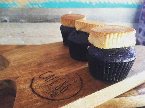 Ube Leche Flan